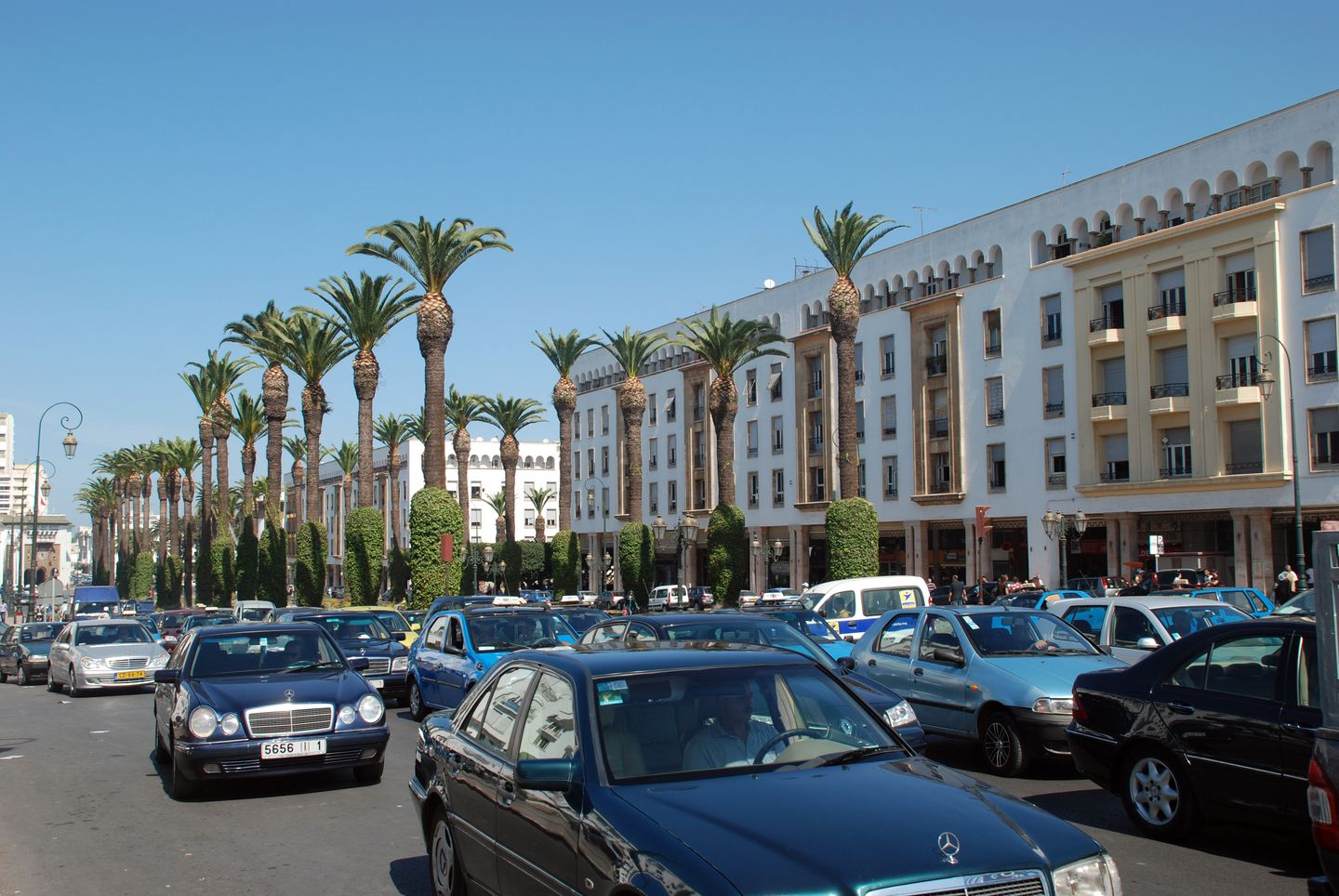 Rabat, Ave Mohammed V near train station